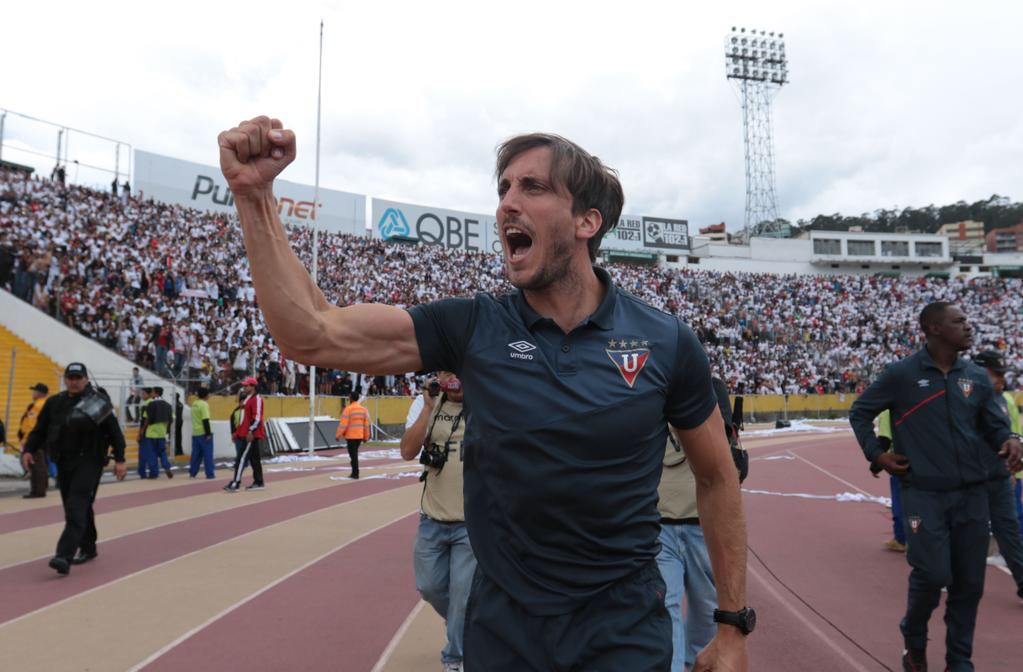 Final de la primera etapa campeonato ecuatoriano 2015